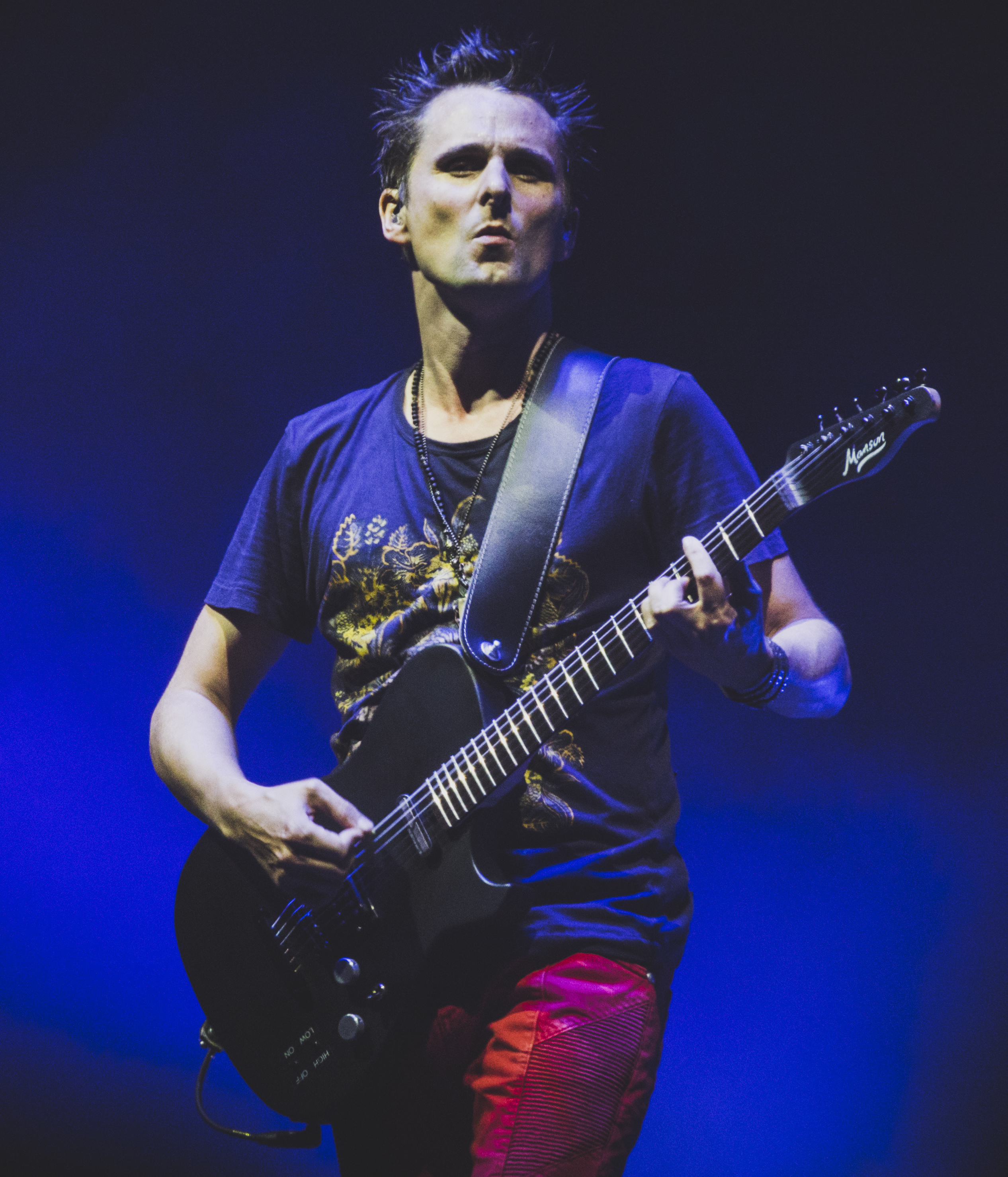 Performance of the English rock band Muse at Reading Festival 2017.